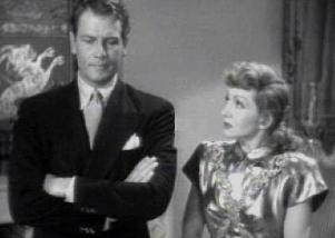 Screenshot from the trailer for The Palm Beach Story, depicting Joel McCrea and Claudette Colbert